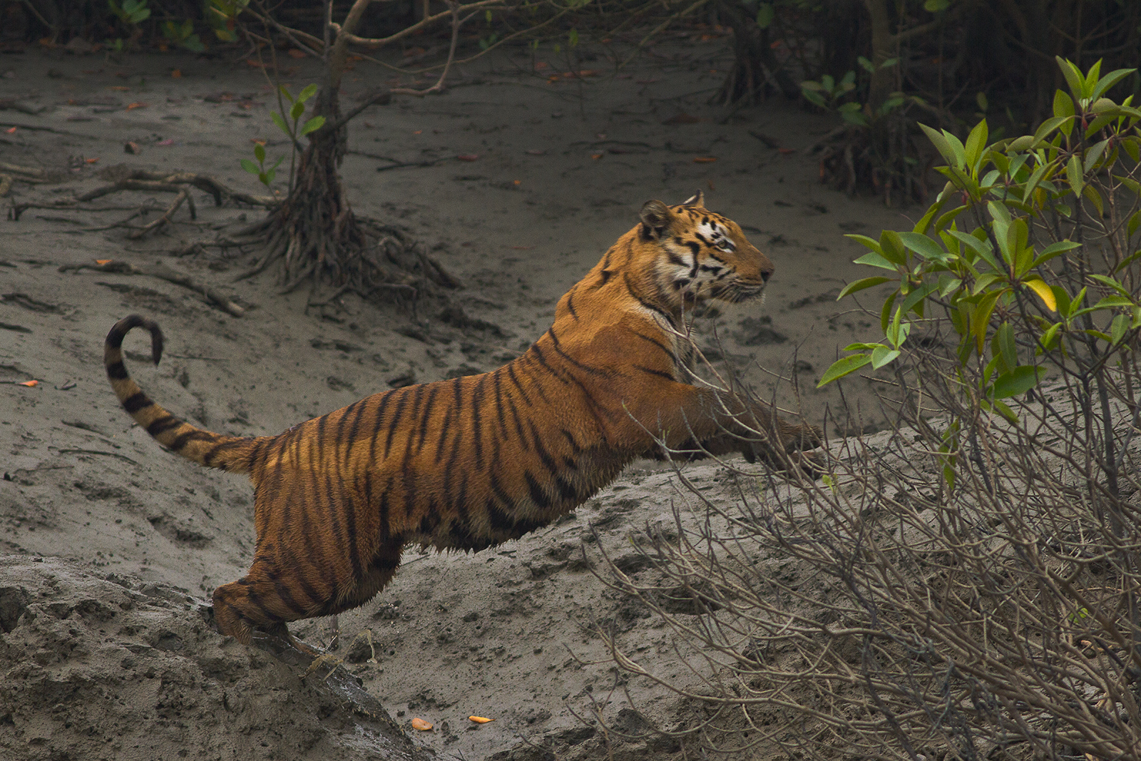 Tigers prefer to jump across the dry canals in Sundarban Tiger Reserve, West Bengal, India.